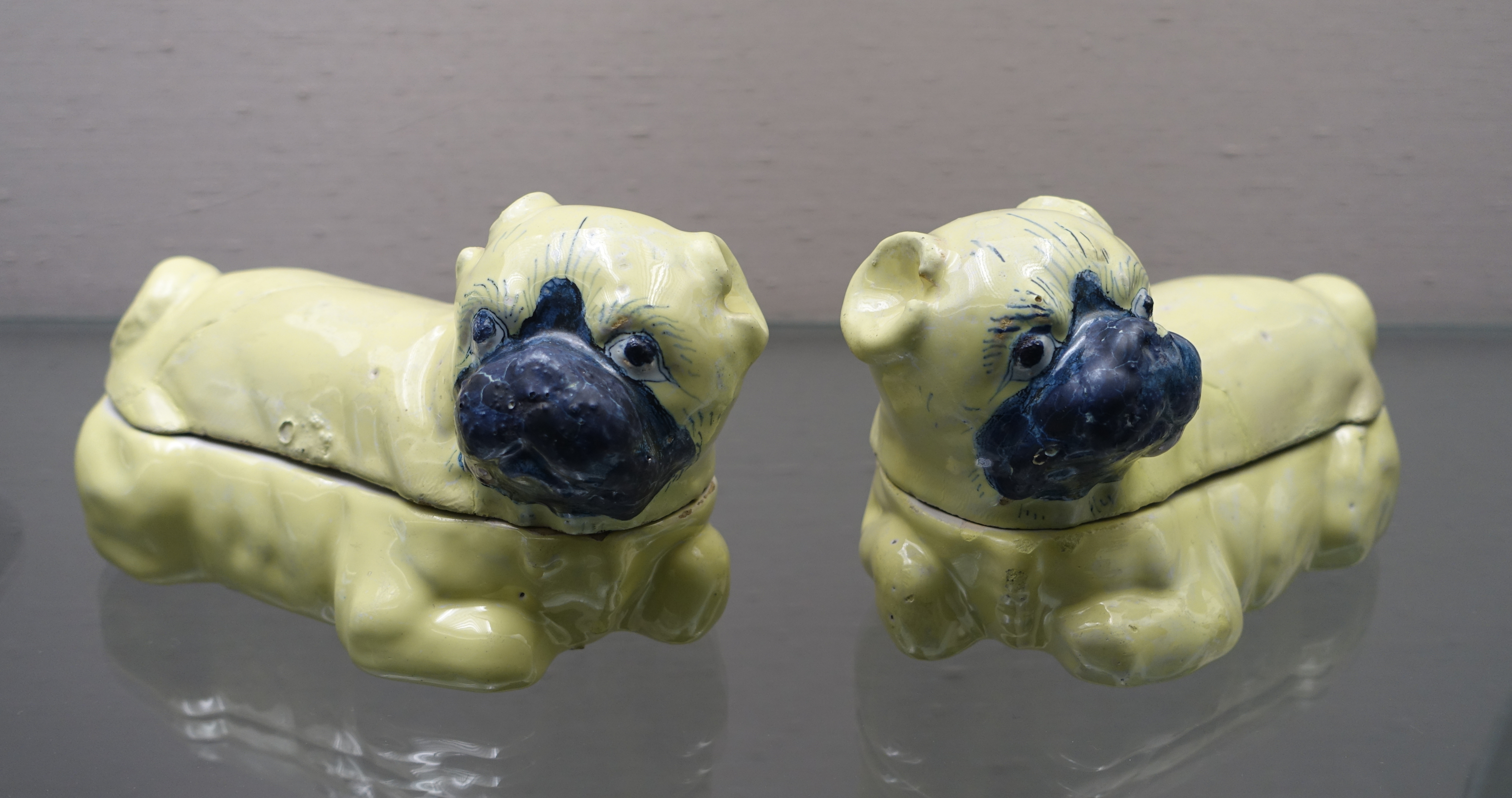 Exhibit in the Germanisches Nationalmuseum - Nuremberg, Germany.